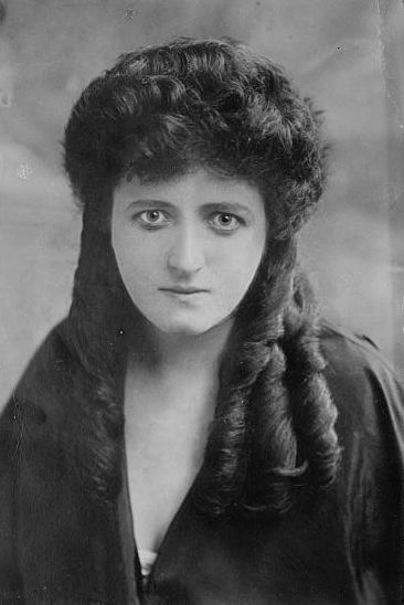 Kuhne Beveridge, sculptress.